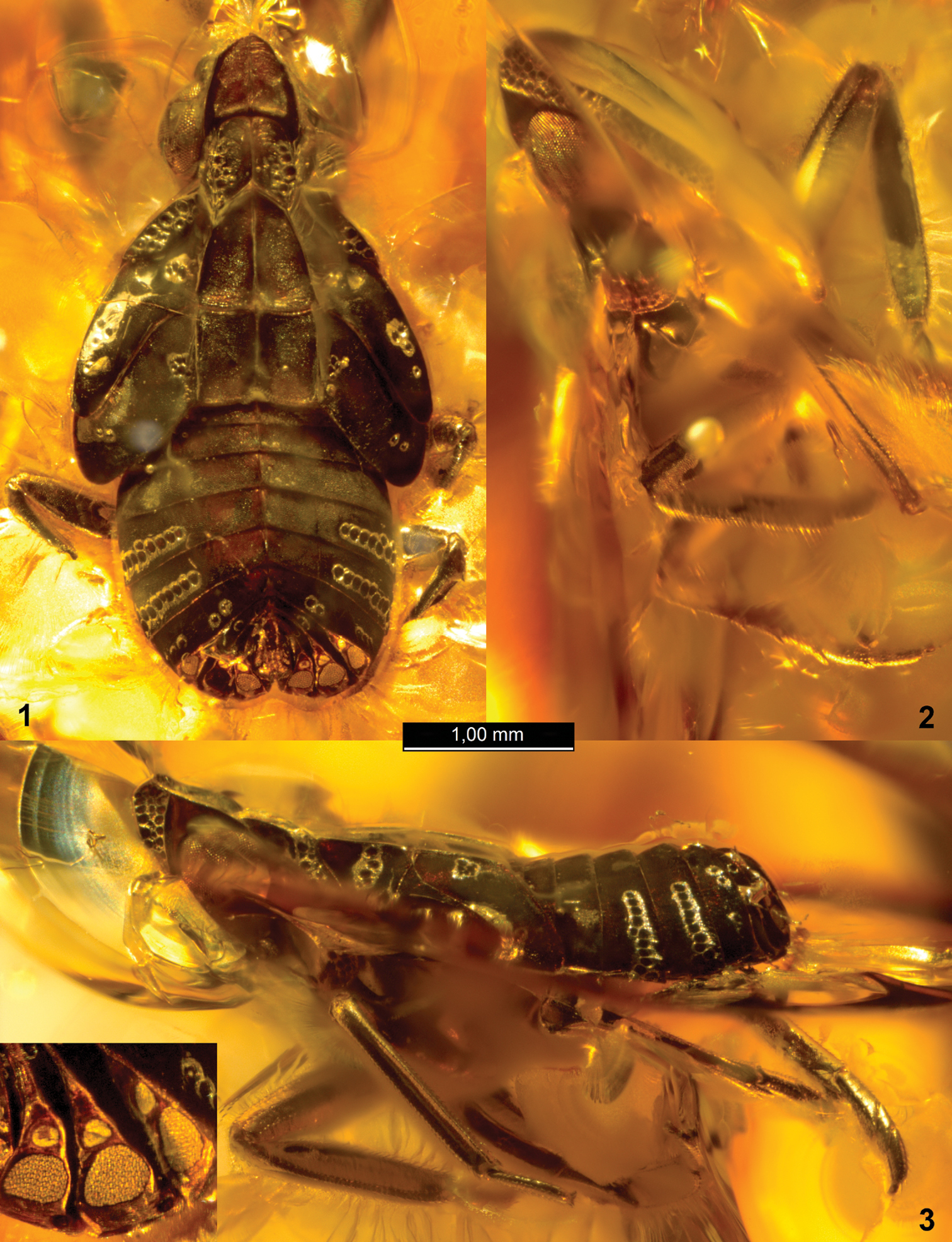 Alicodoxa rasnitsyni gen. et sp. n. (Orthopagini), 4th instar nymph, Rovno amber: 1 dorsal view 2 anteroventral view 3 lateral view (all to same scale); inset, wax plates of the right side, enlarged.